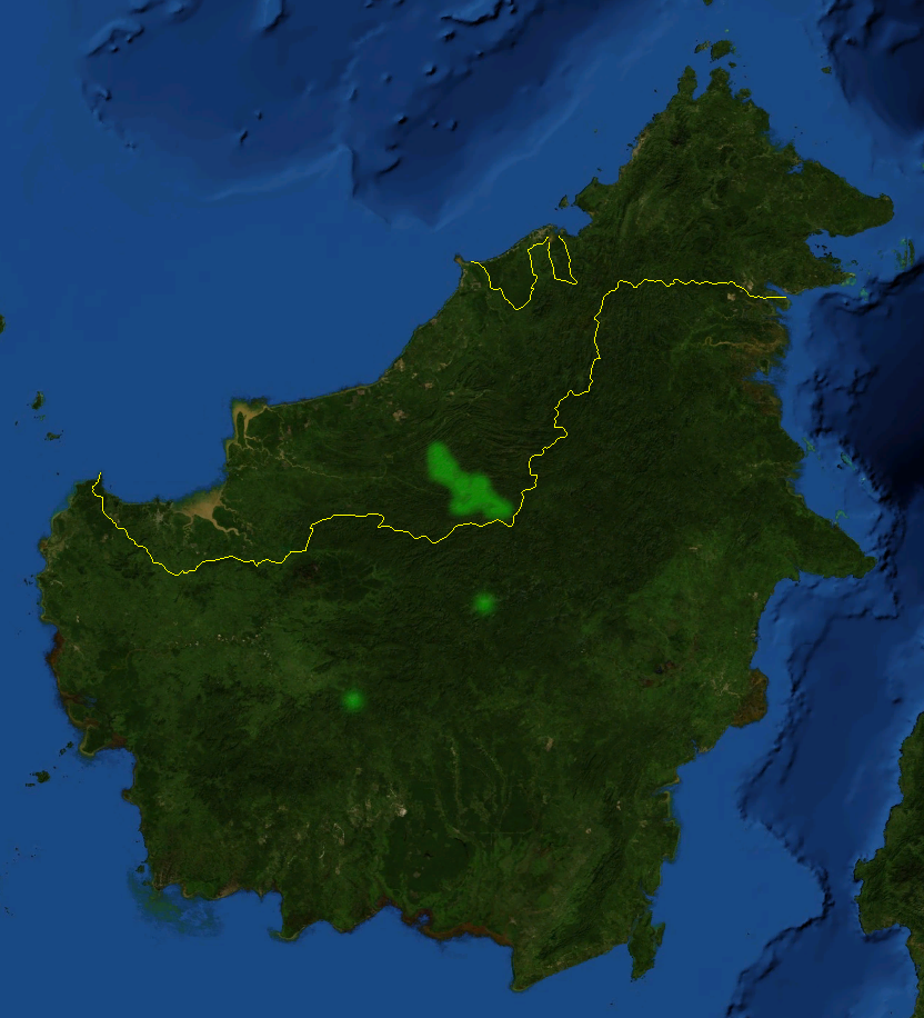 Distribution of Nepenthes ephippiata. Distribution: Hose Mountains Bukit Lesung Gunung Raya